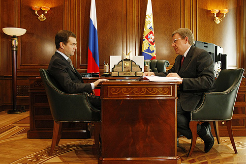 GORKI, MOSCOW DEGION. With Deputy Prime Minister and Minister of Finance Alexei Kudrin.